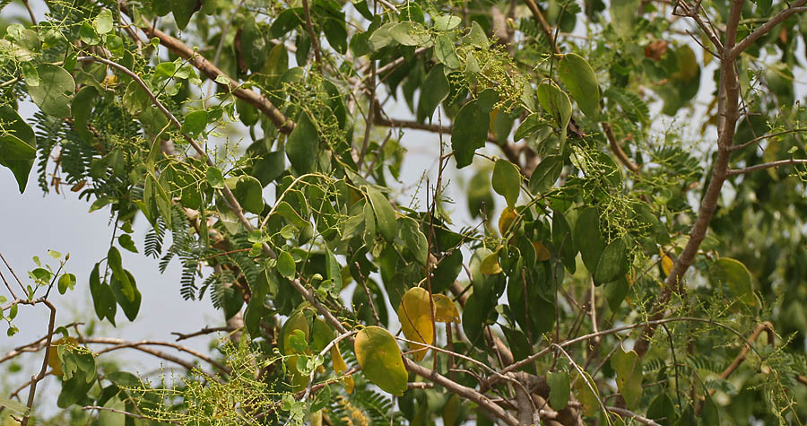 Peelu, Meswak toothpaste plant, Saltbush, Chhota Peelu, Jhak, Kharjal, Jal, Dhalu, Sara or Piludi Salvadora persica in Krishna Wildlife Sanctuary, Andhra Pradesh, India.